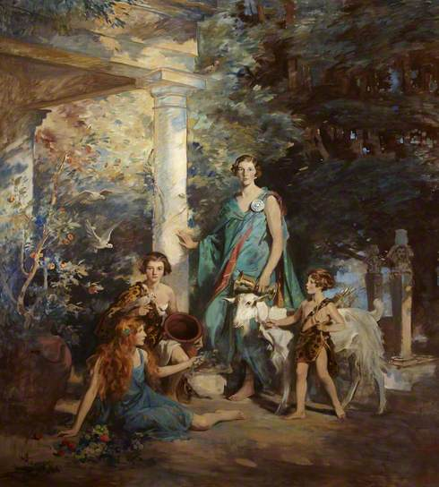 Portrait of Circe and the Sirens': A Group Portrait of the Honourable Edith Chaplin (1878–1959), Marchioness of Londonderry, and Her Three Youngest Daughters, Lady Margaret Frances Anne Vane-Tempest-Stewart (1910–1966), Lady Helen Maglona Vane-Tempest-Stewart (1911). Oil on canvas, by the artist Charles Edmund Brock (d. 1938). 327.5 cm x 274.5 cm. Courtesy of the collection of the National Trust.